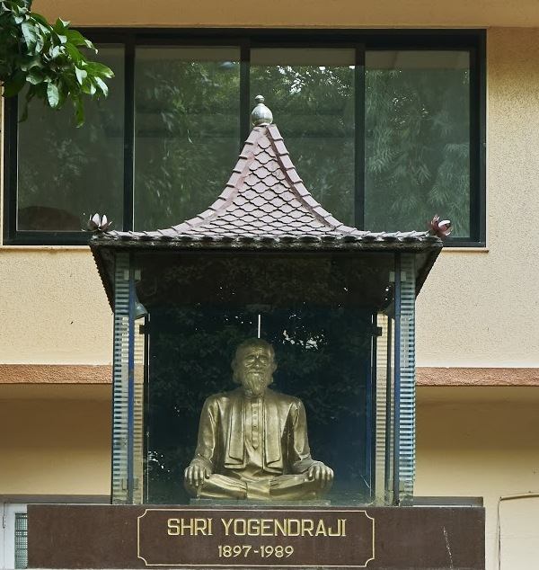 Yogendraji's Statue